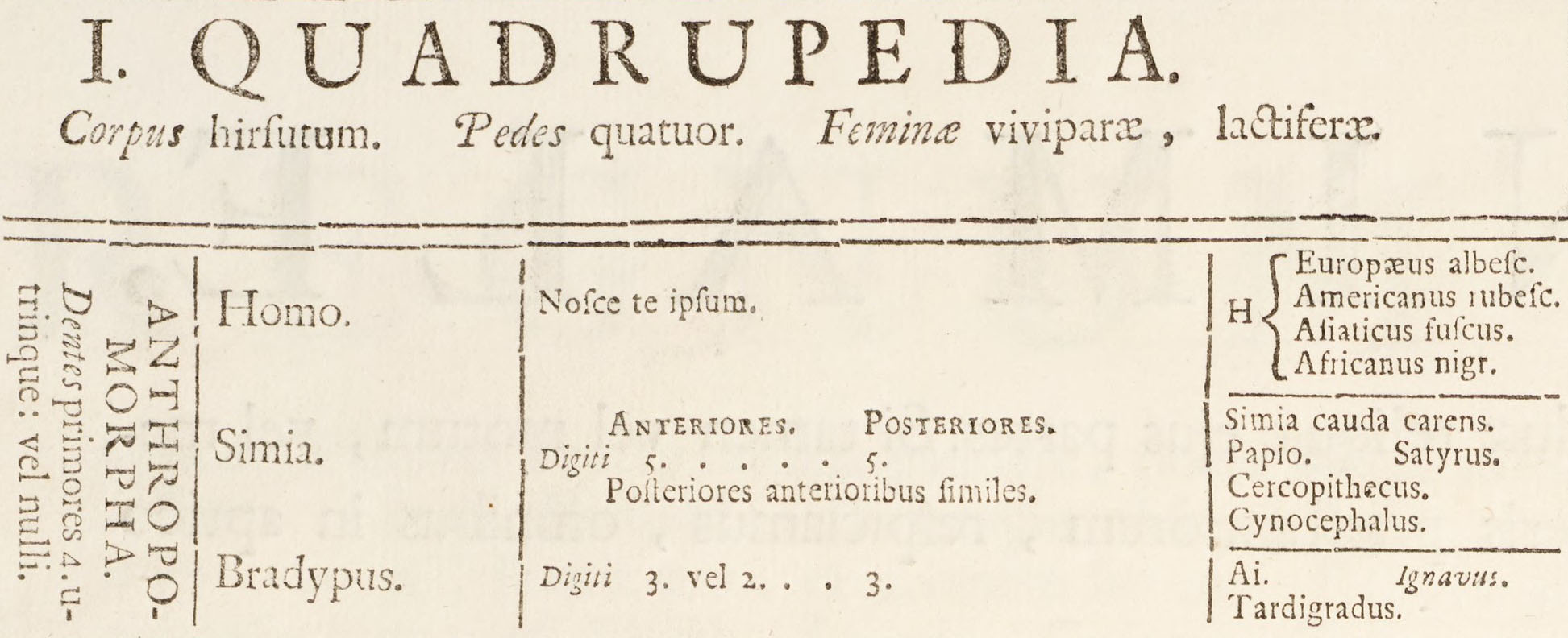 Anthropomorpha Detail form Systema Naturae 1735